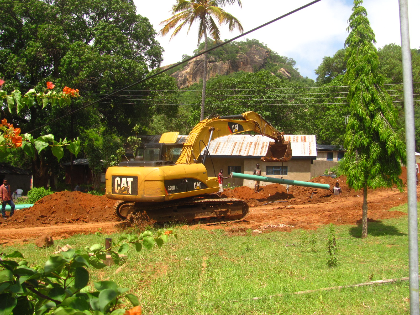 The new supply of drinking water for Masasi town is the first to provide enough for all residents of the expanding town. The supply relies on three very big covered storage tanks to hold spring water collected from hills about 40 km away.